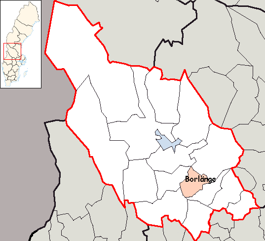 Borlänge Municipality in Dalarna County Designd by me, based on Image:Dalarna County.png